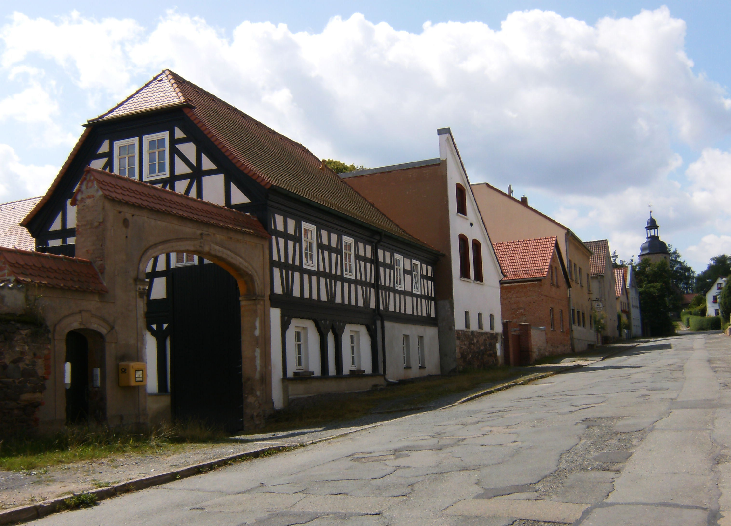 Gera Oberröppisch, in the village.